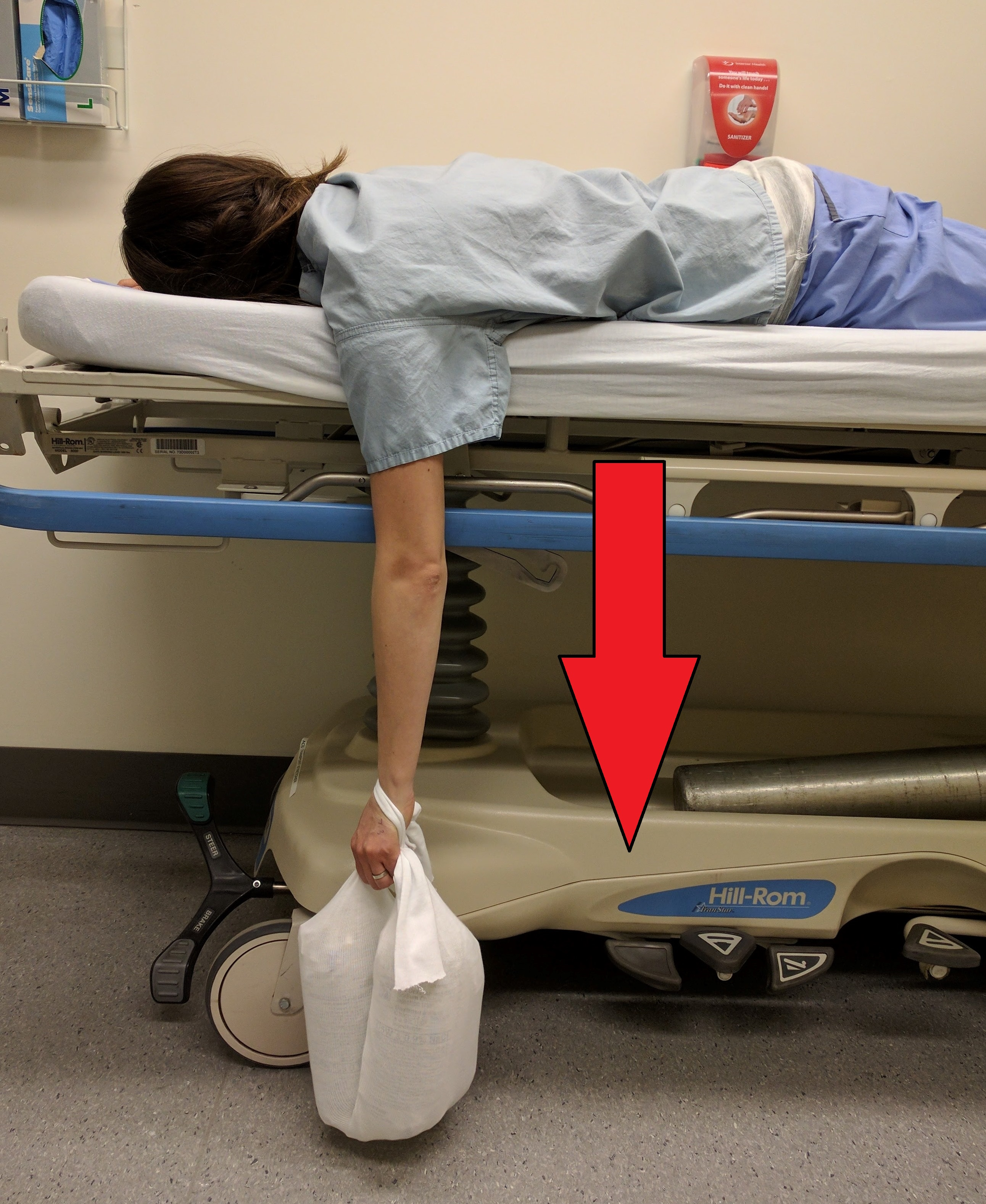 An example of Stimson maneuver used for shoulder reduction. Person is lying on their stomach with a 4 kg weight tied to their wrist.